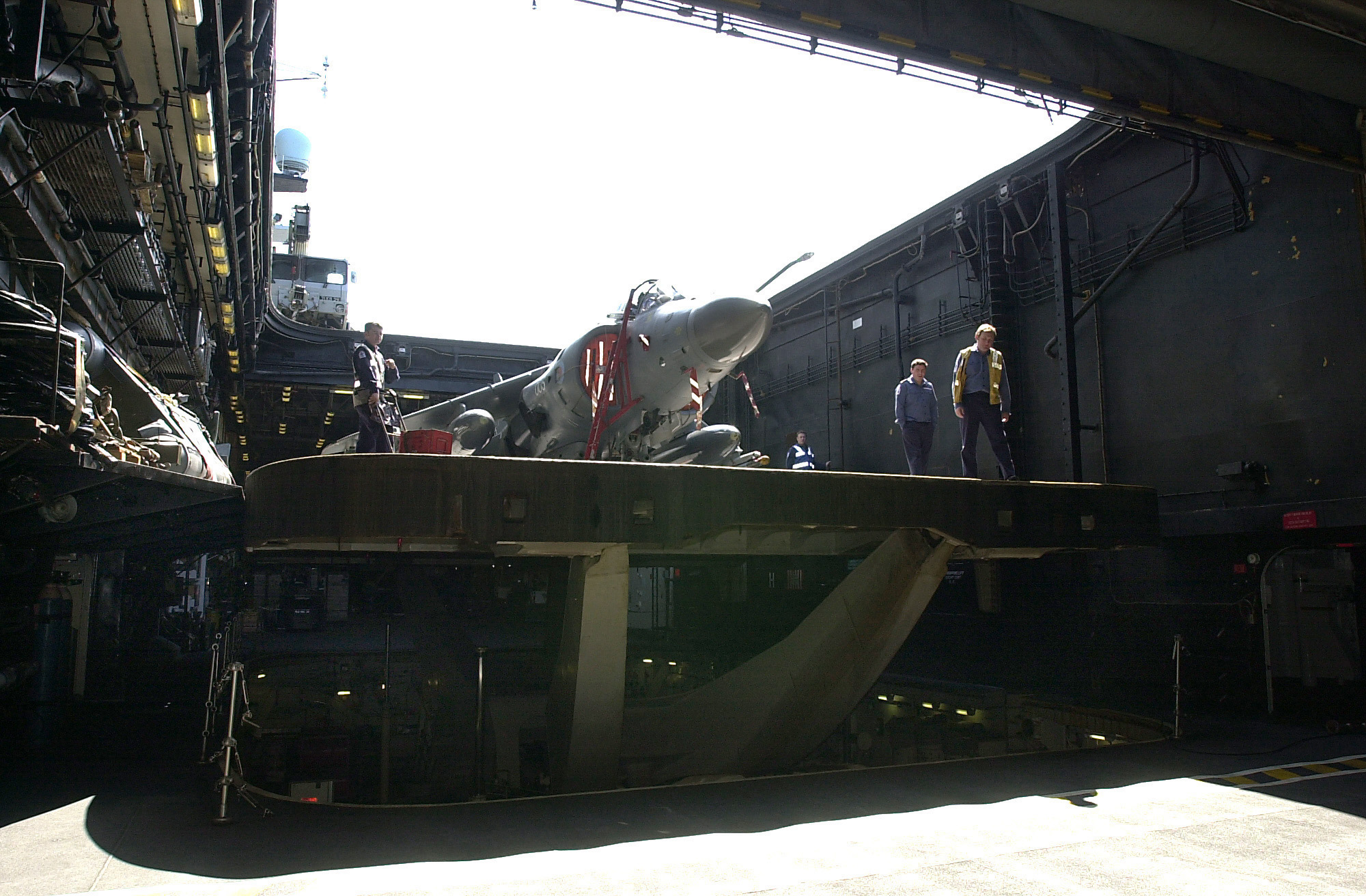 A Royal Navy BAe Sea Harrier FA2 is lowered into the hanger bay of of HMS Illustrious (R06) as it positions on 25 June 2001. The aircraft belonging to 801 Naval Air Squadron was providing air support to British and U.S. units ashore during their participation in the Joint Maritime Course (JMC), the equivalent of the U.S. Navy's JTFEX with the USS Enterprise Carrier Battle Group. USS Enterprise (CVN-65) was on a six-month long deployment to the Mediterranean.